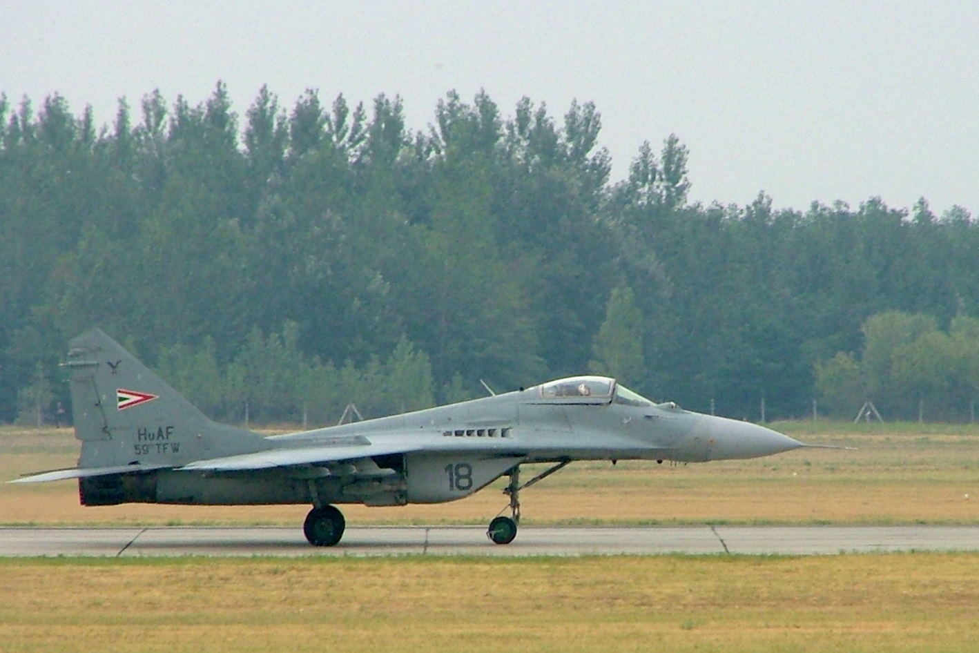 MiG-29 of the Hungarian Air Force, Kecskemét open day, 2007.